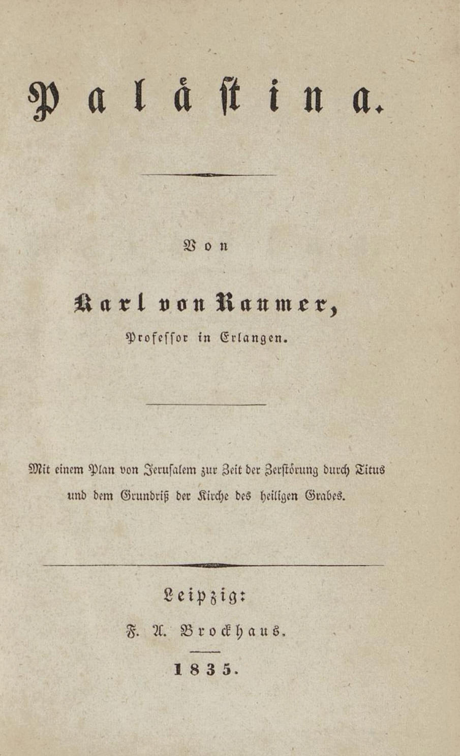 Title page of the book by Karl von Raumer, "Palästina" (1835)